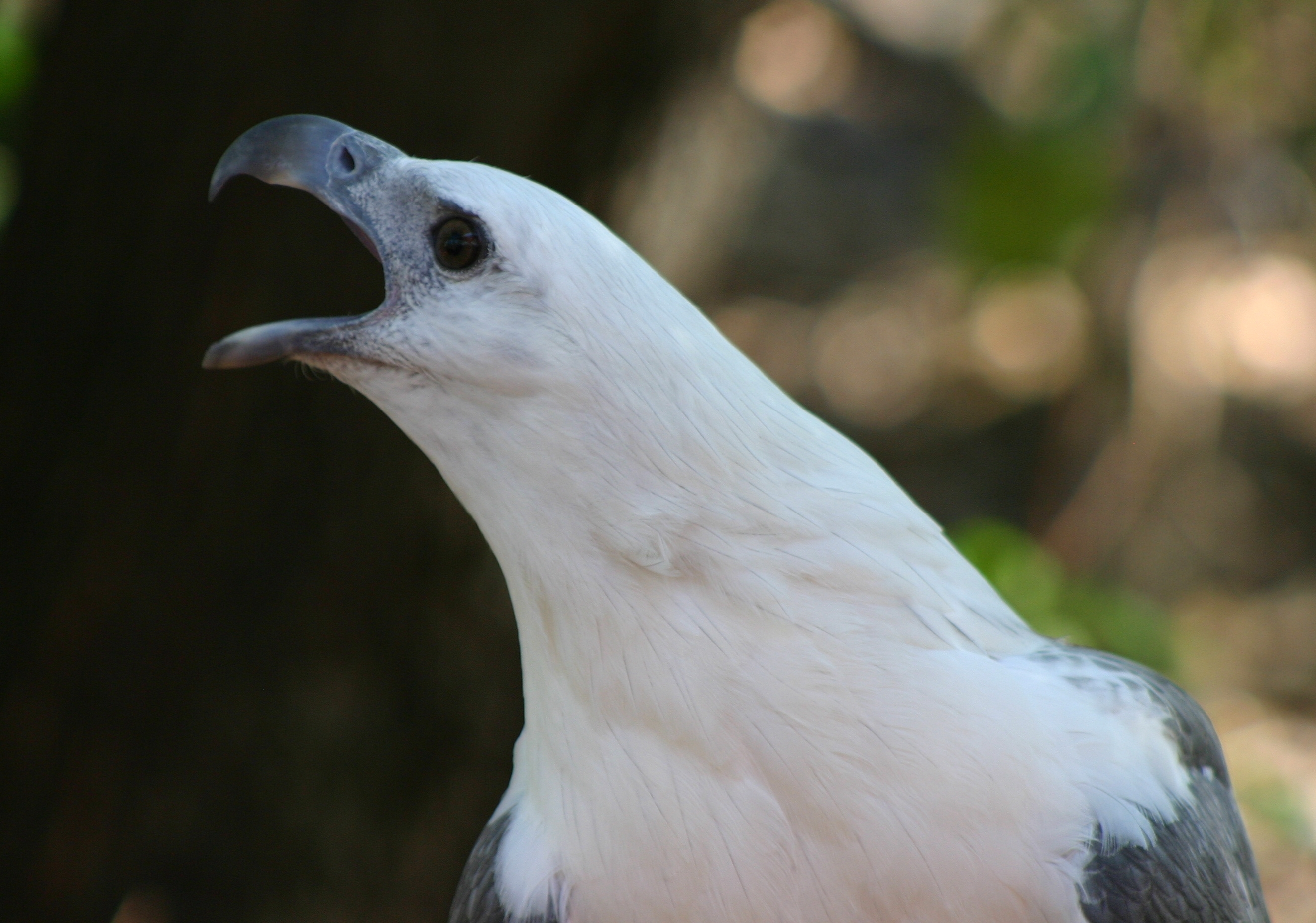 White Bellied Sea Eagle at the Territory Wildlife Park, Darwin